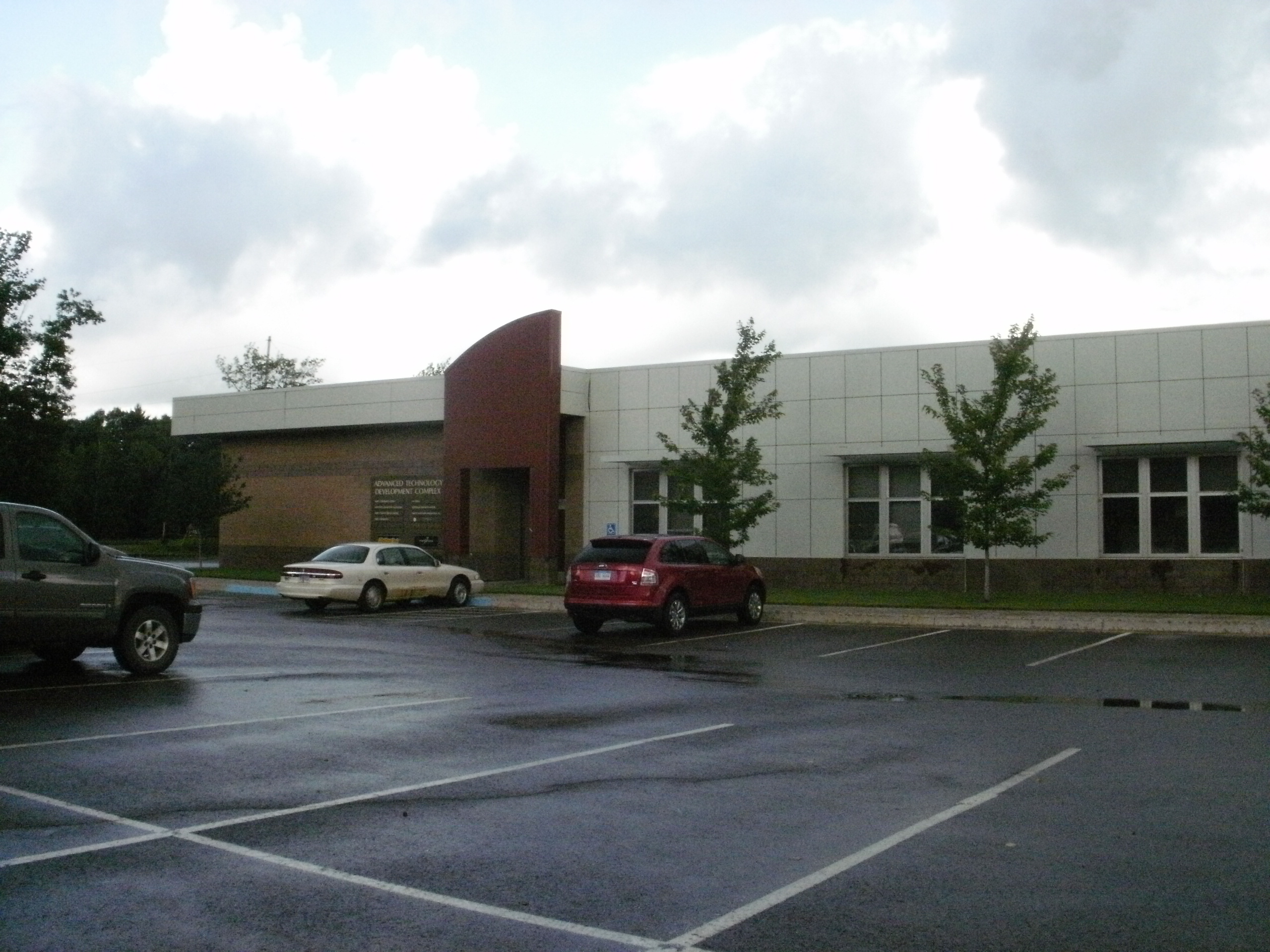 Advanced Technology Development Complex on Michigan Tech's campus